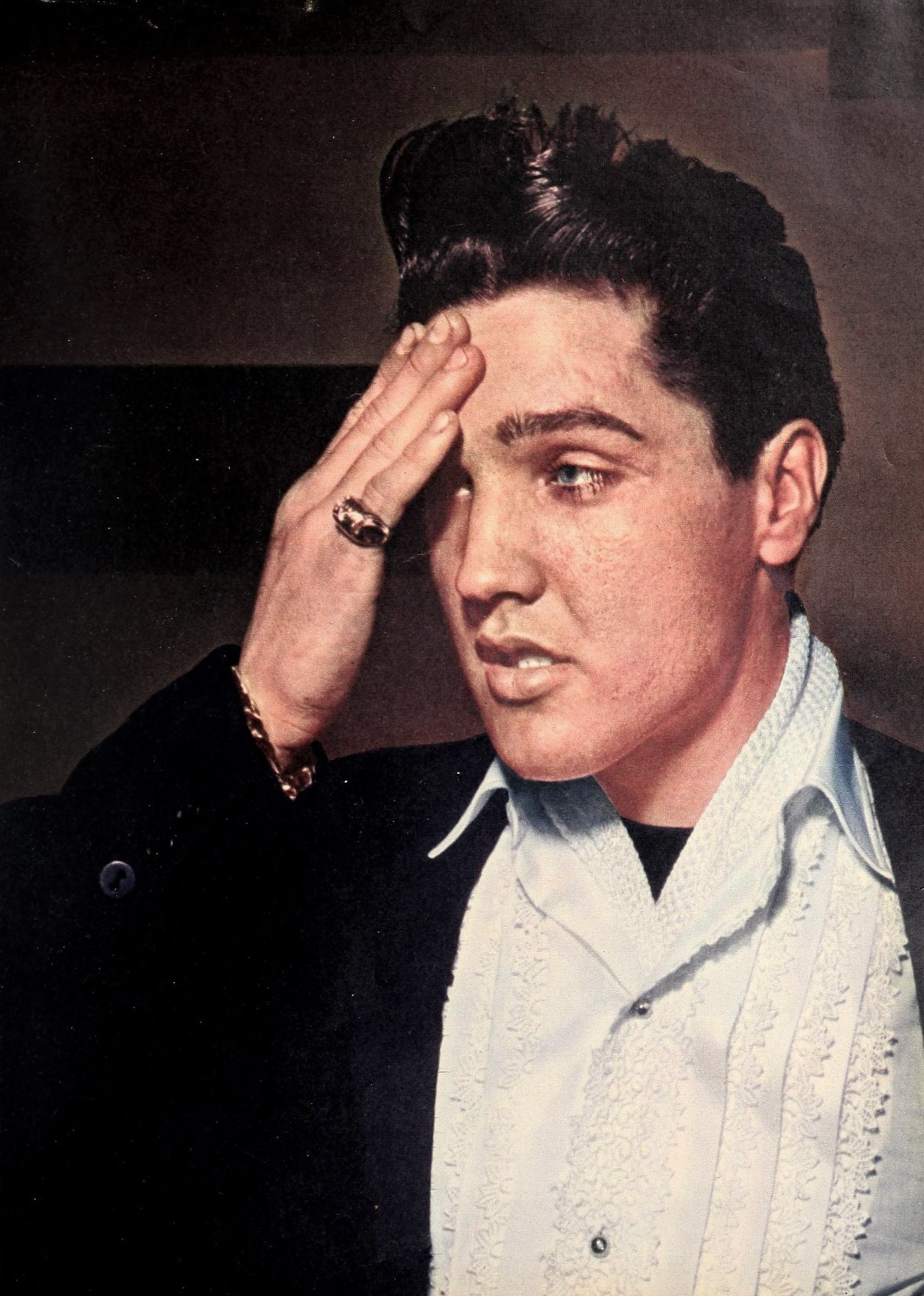 Elvis Presley, 1960